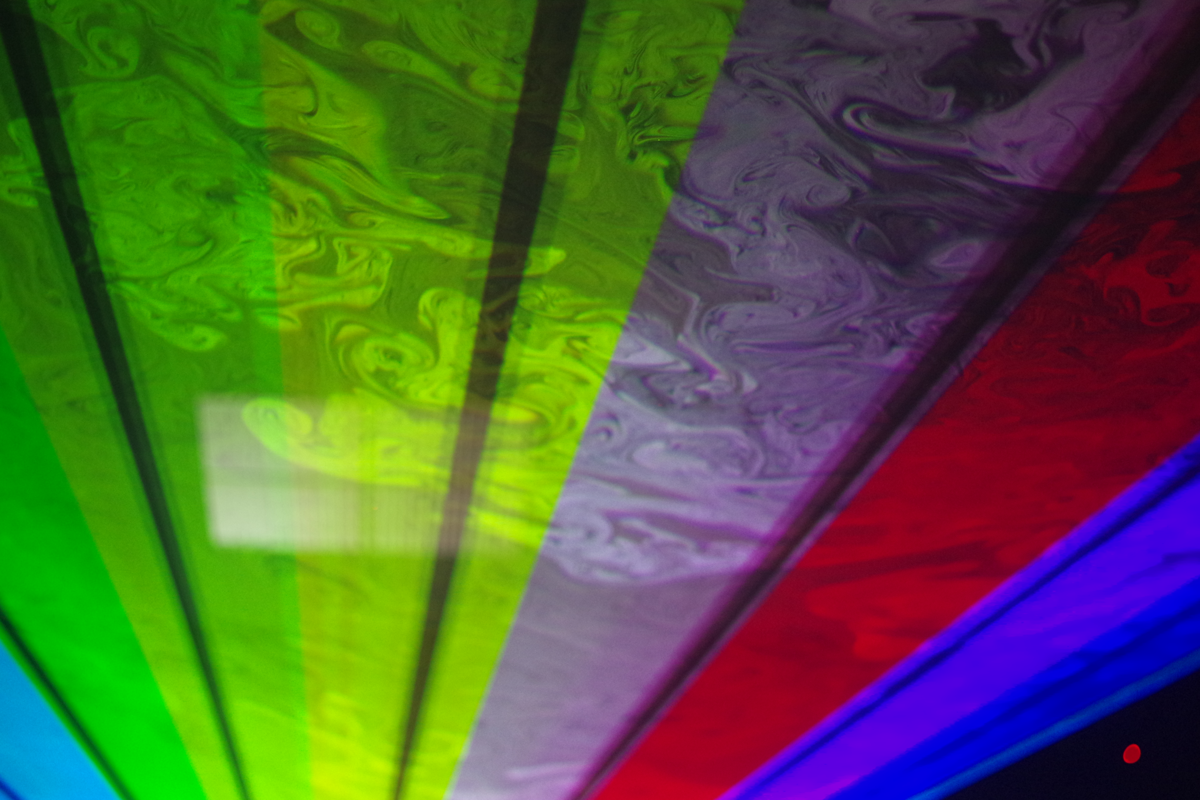 Volumetric Laser Effect